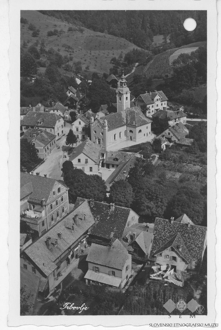 Postcard of Trbovlje